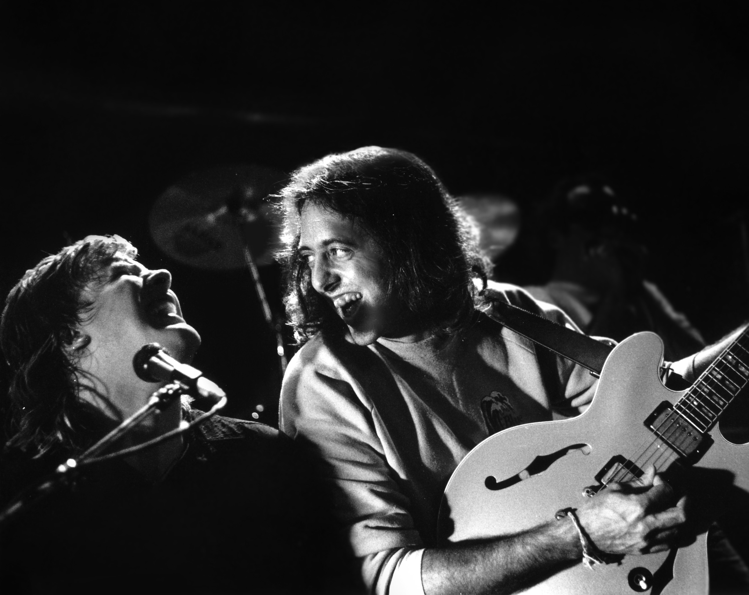 Blues Musicians